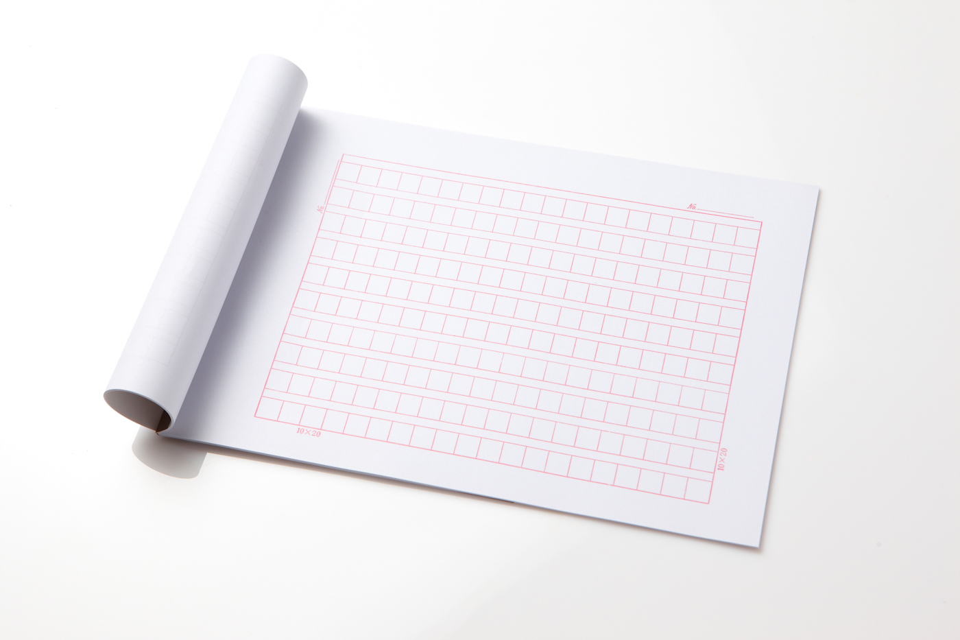 Squared manuscript paper